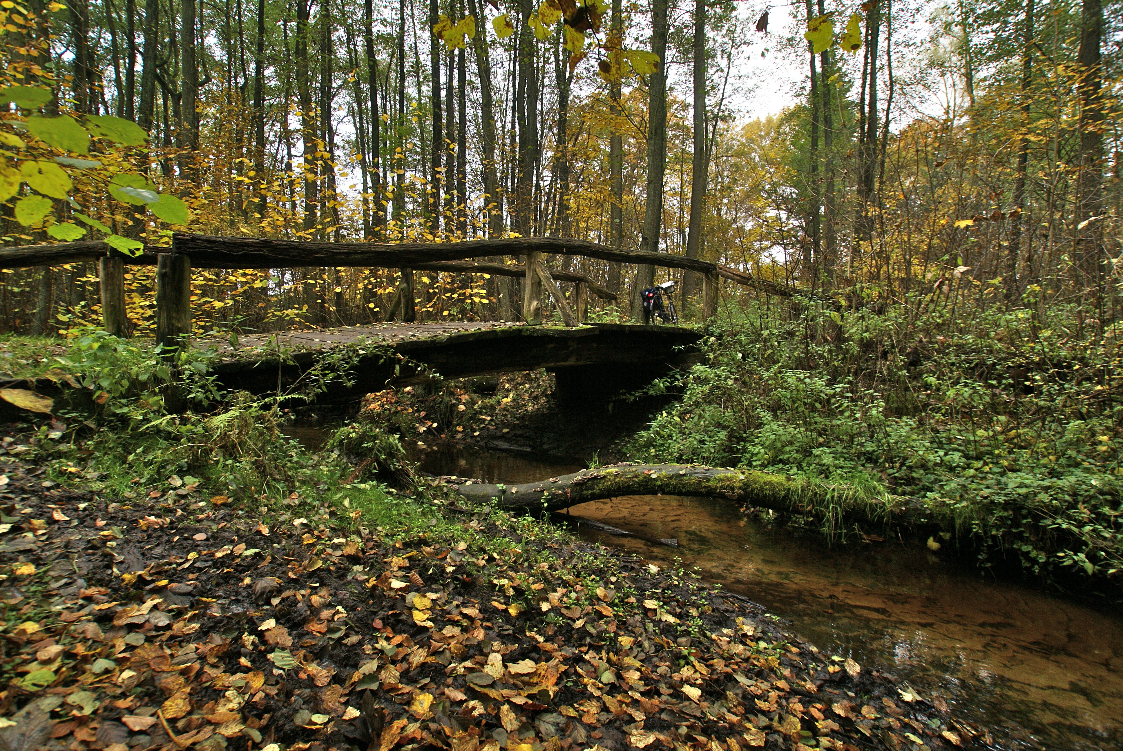 Hamburg (Duvenstedt), Germany: Bridge over the River Diekbek